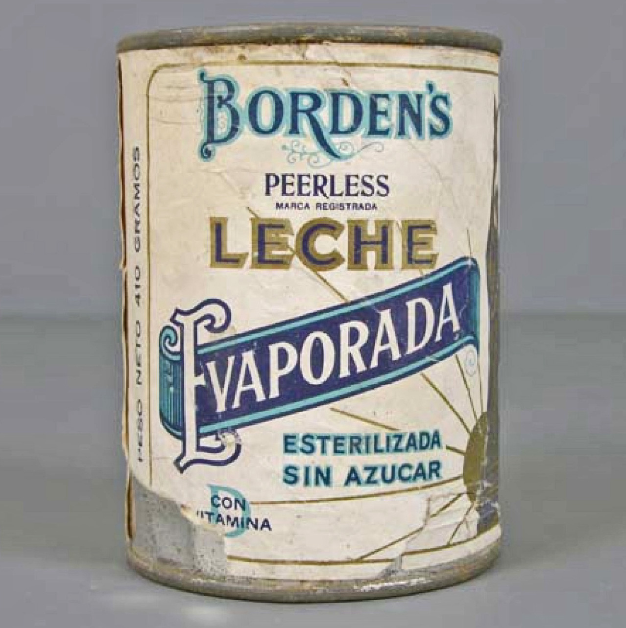 Can of Borden's evaporated milk with label in Spanish from second half of 20th century.